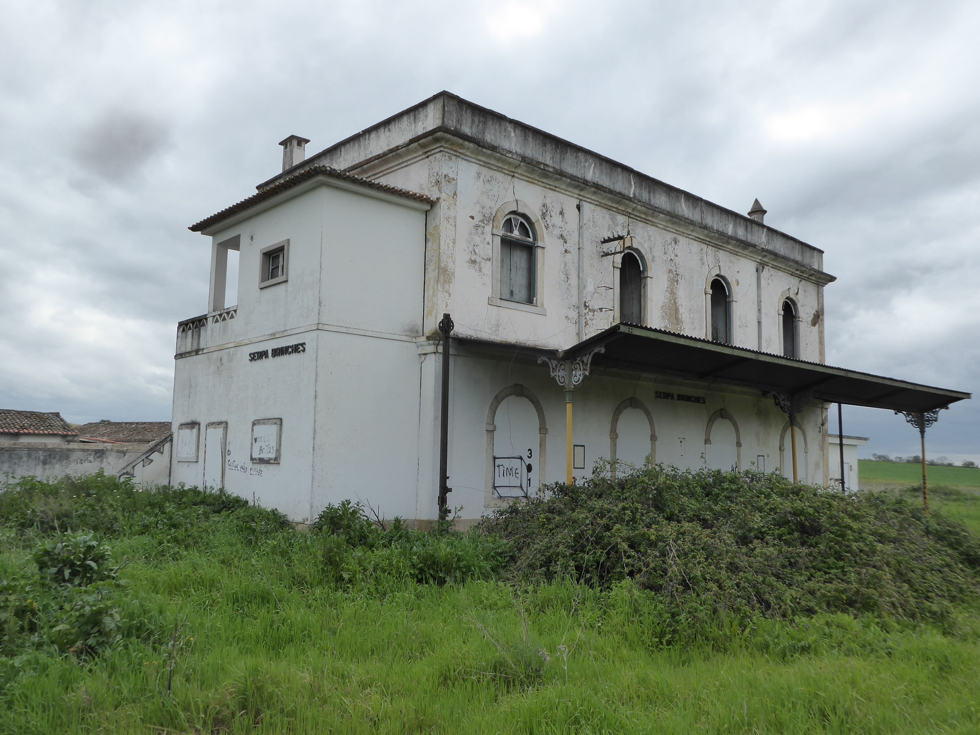 Serpa-Brinches train station, Portugal